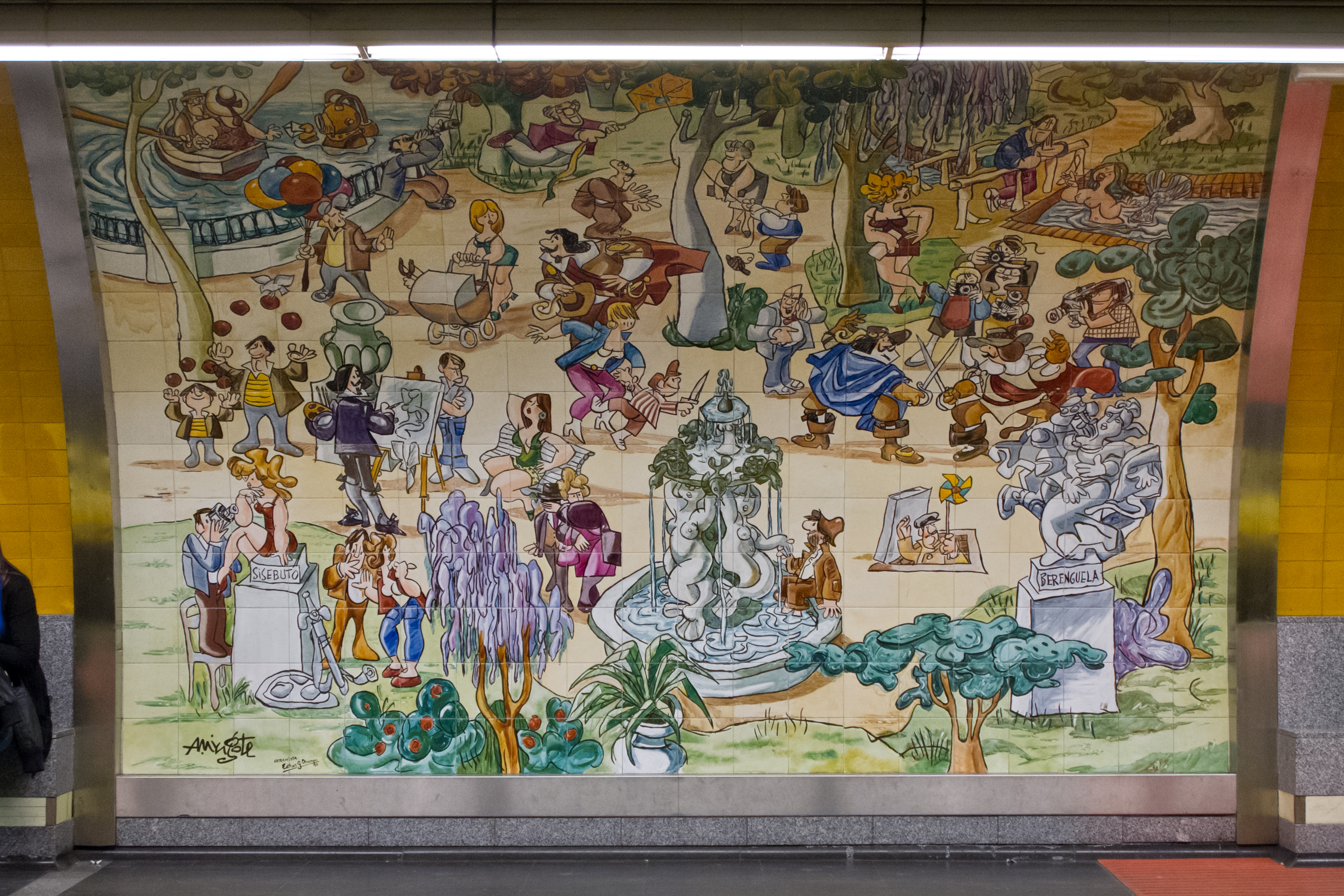 Mural drawn by Mingote in 1987 in the Retiro station in the Madrid underground.